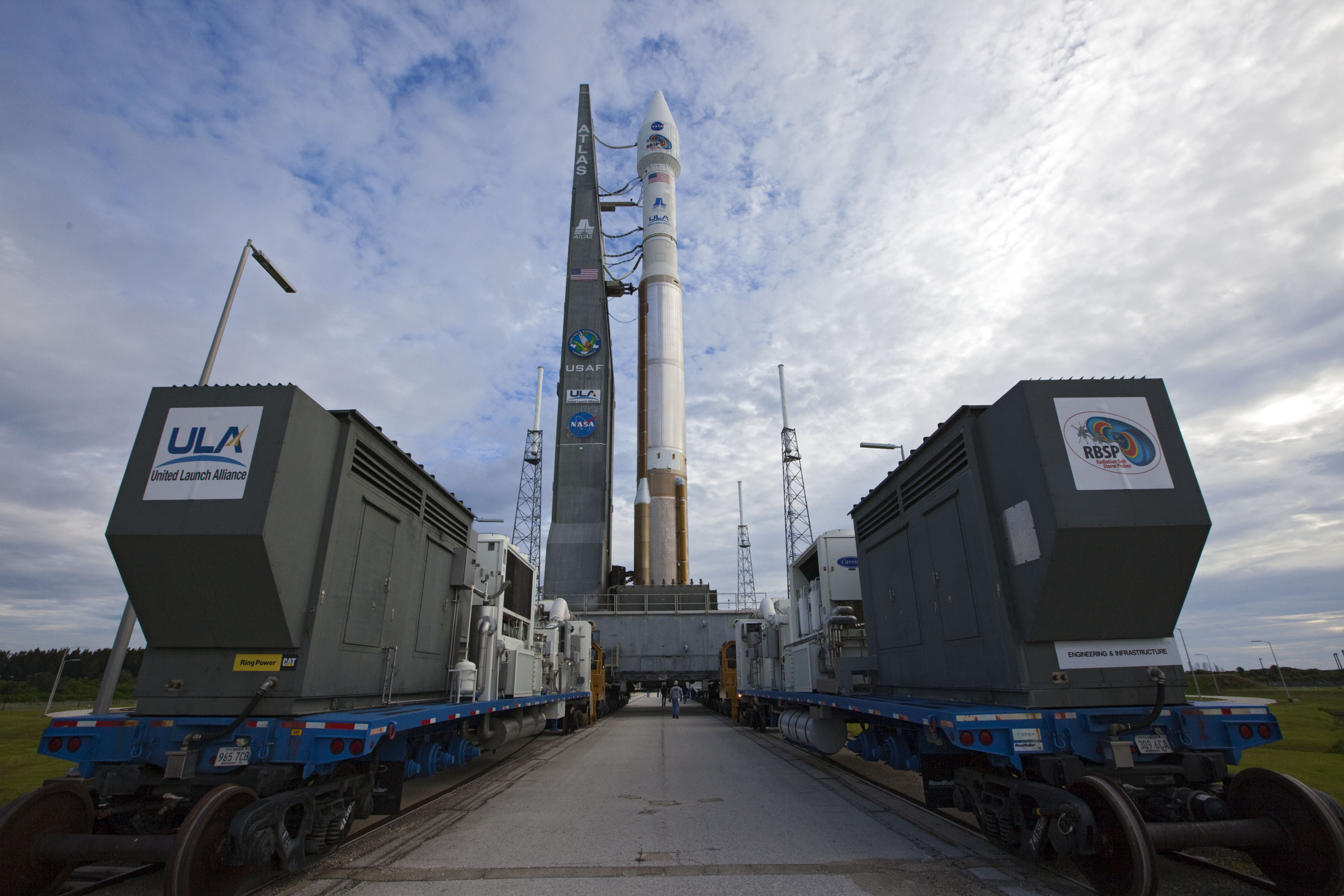 CAPE CANAVERAL, Fla. – Workers help guide the United Launch Alliance with the Radiation Belt Storm Probes, or RBSP, spacecraft aboard as it moves to the launch pad at Space Launch Complex 41 at Cape Canaveral Air Force Station. NASA’s RBSP mission will help researchers understand the sun’s influence on Earth and near-Earth space by studying the Earth’s radiation belts on various scales of space and time. RBSP will begin its mission of exploration of Earth’s Van Allen radiation belts and the extremes of space weather after its launch aboard an Atlas V rocket. Launch is targeted for Aug. 24.